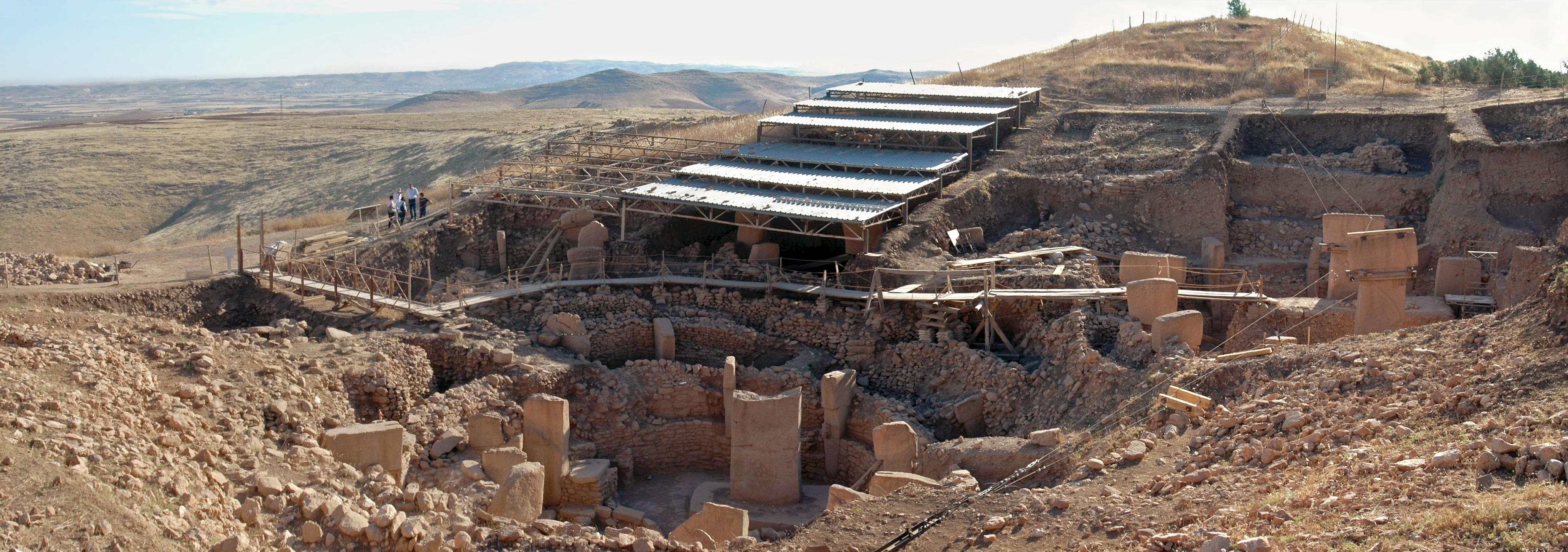 Göbekli Tepe (Turkey): a panoramic view of the southern excavation field